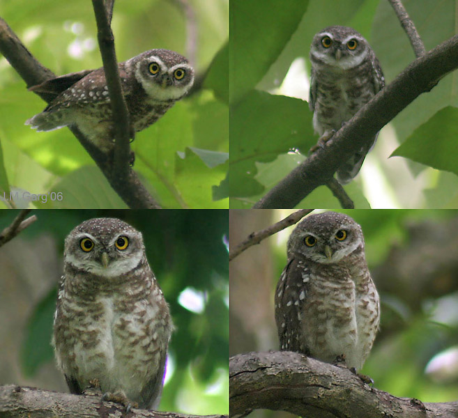 Spotted Owlet Athene brama in Kolkata, West Bengal, India.